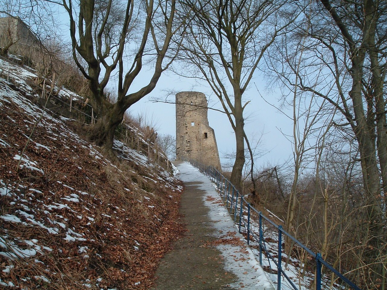 The castle "Burg Volmarstein" is a ruin in Wetter (Ruhr)-Volmarstein near Hagen, Germany. It was built in 1100 by archbishop Friedrich I. von Schwarzenburg. This image was tagen on the footpath rise to the ruin.